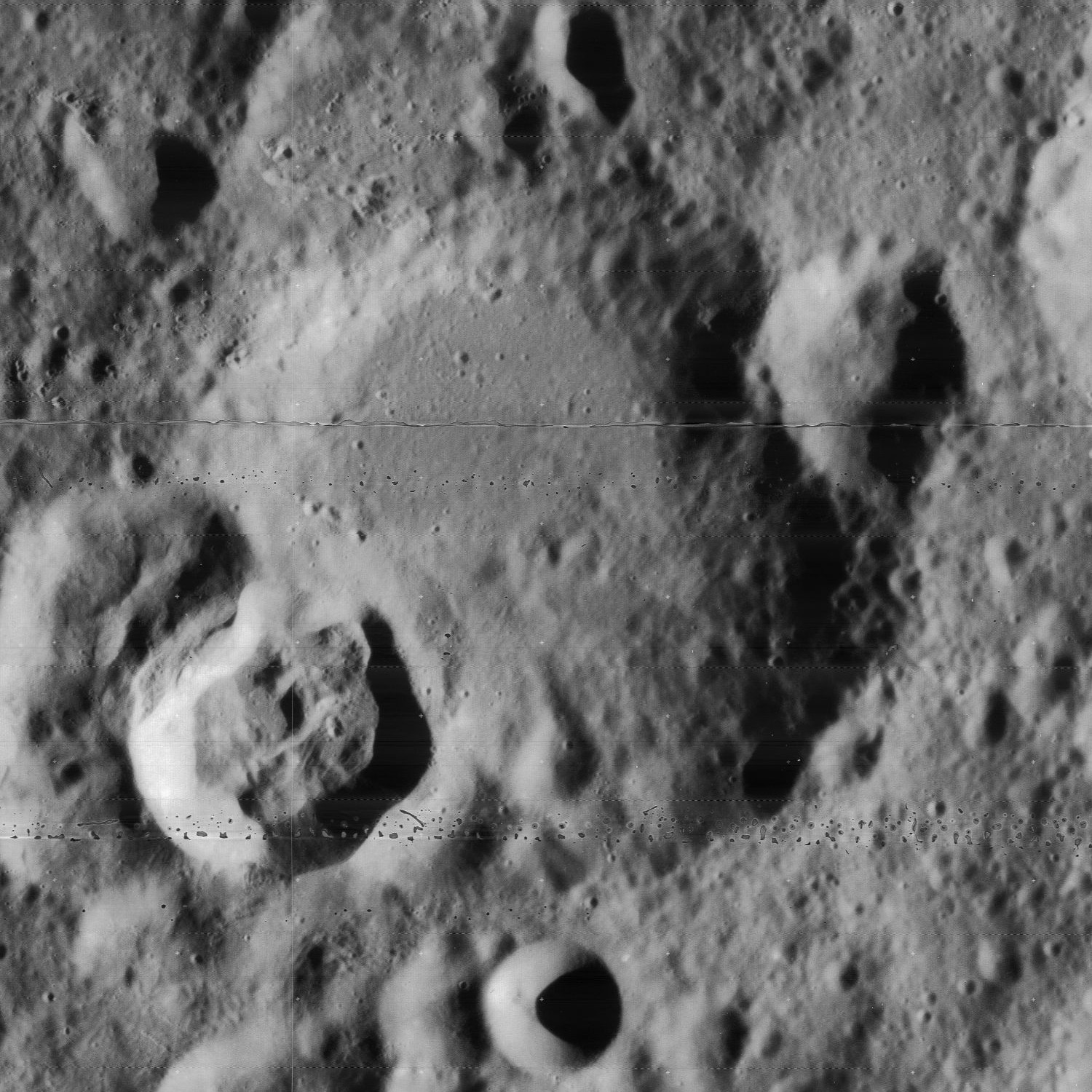 Faraday crater, on the moon. Horizontal bands are blemishes on the original.